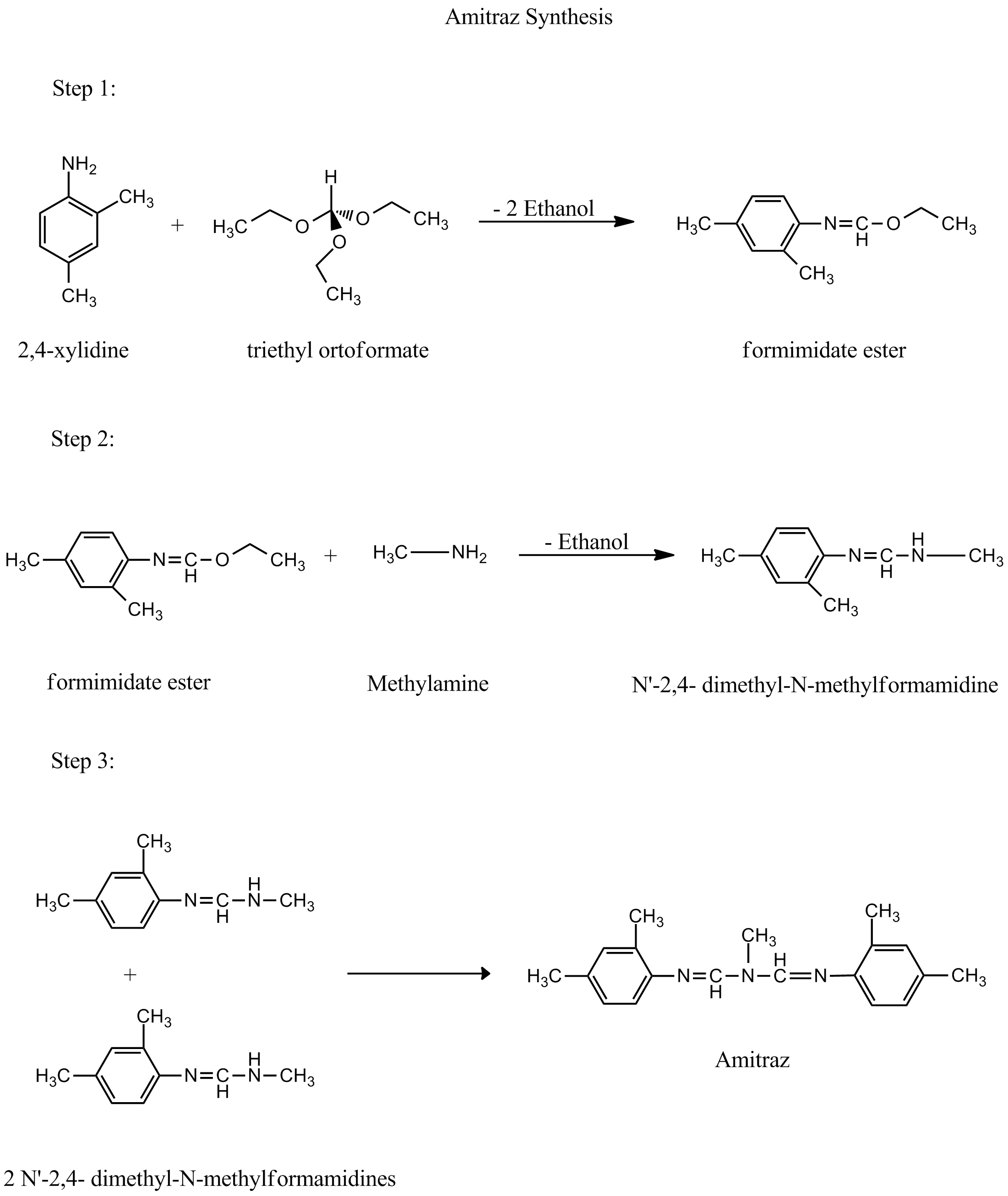 This file shows the different steps in the synthesis of amitraz via the reaction of 2,4-Xylidine + triethyl orthoformate + methylamine (imine formation/amine formation).